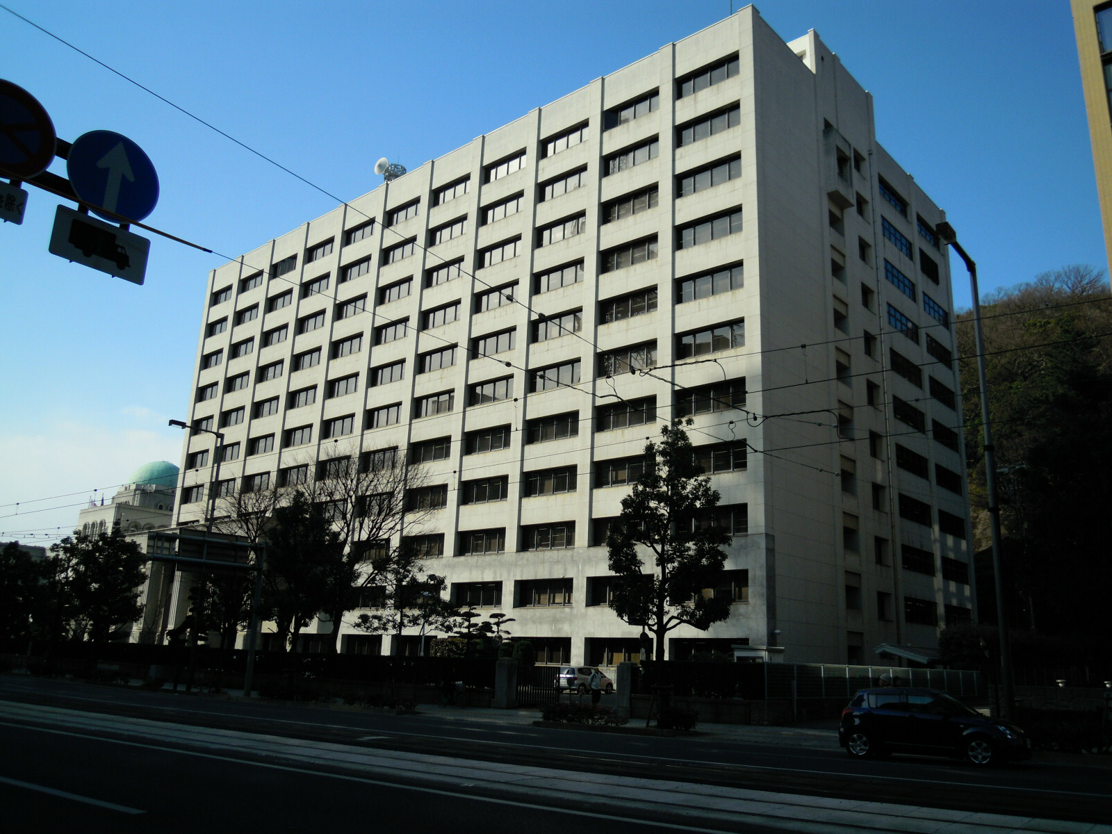 Ehime Prefectural Government Office First Annex